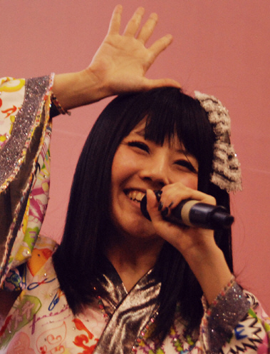 dempagumi.inc // でんぱ組.inc Live in Jakarta // KOKORONOTOMO